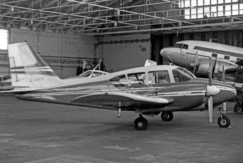 Piper PA-23 Apache 235 G-ASFF at Liverpool (Speke) Airport in 1967